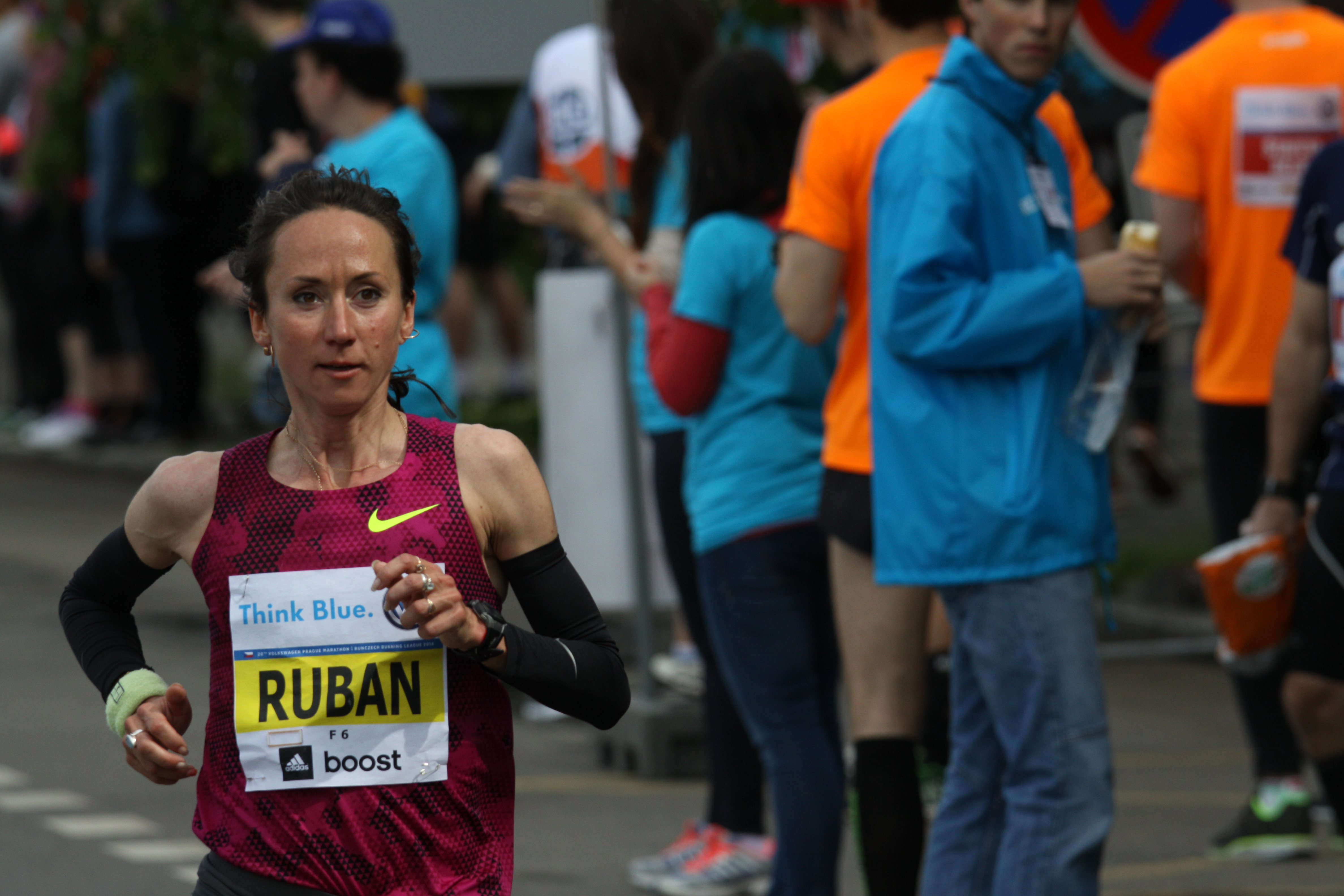 Prague International Marathon in 2014, Czech Republic